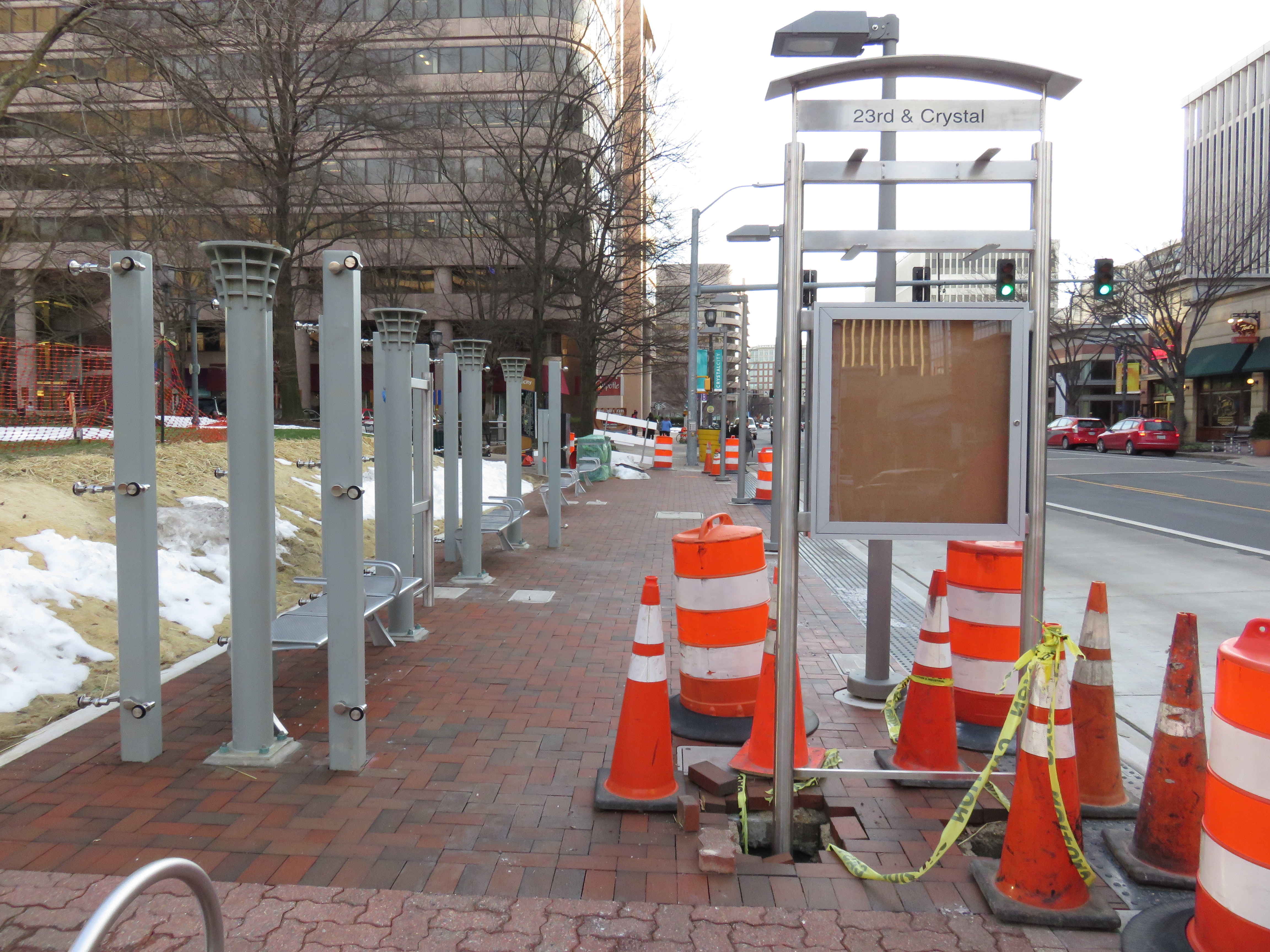 18th & Crystal Metroway station in Crystal City, Arlington, Virginia under construction in February 2016